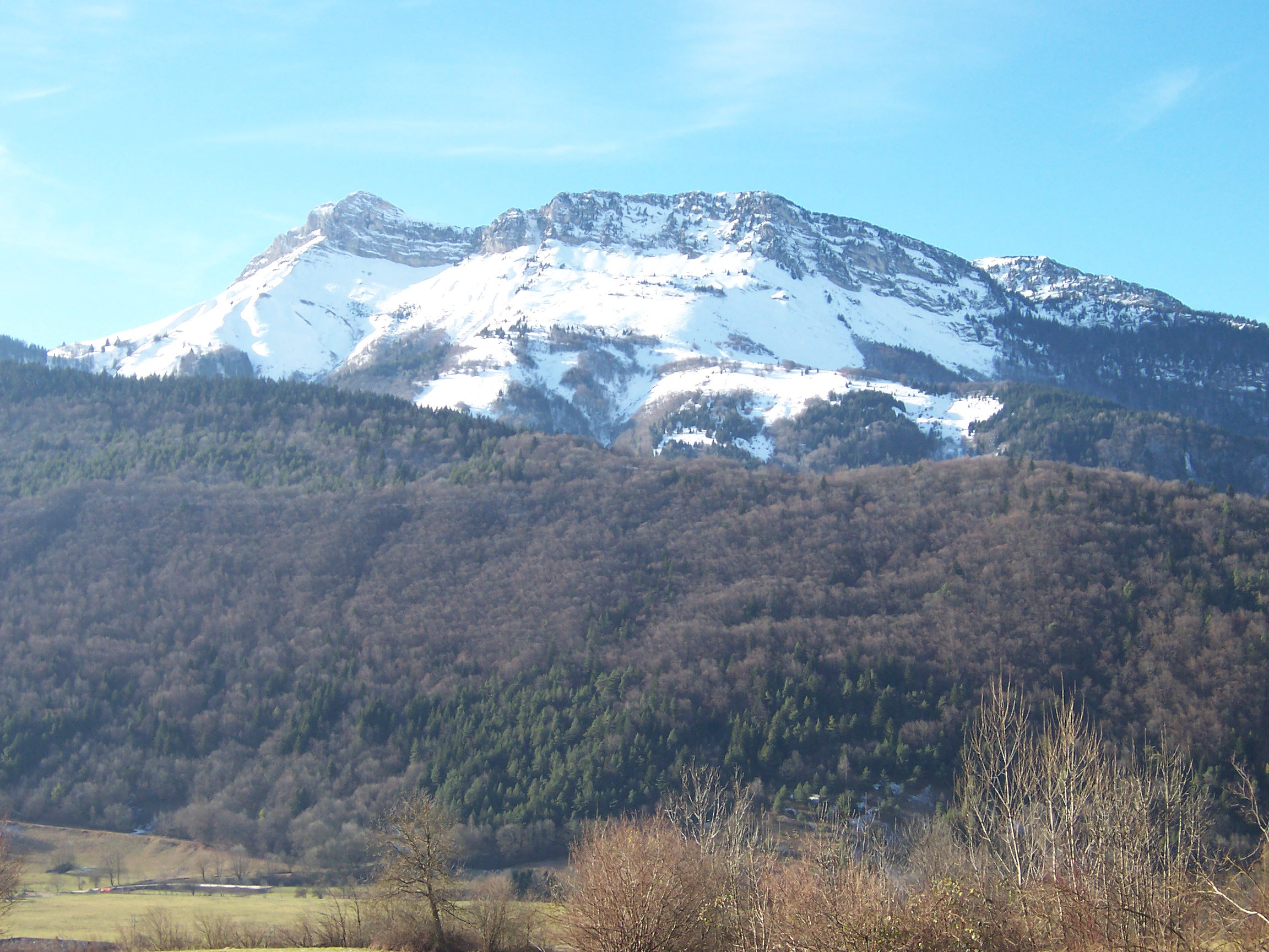 The mountain of Grand Colombier in the Massif des Bauges (Savoie, France) seen from between Jarsy and Ecole-en-Bauges